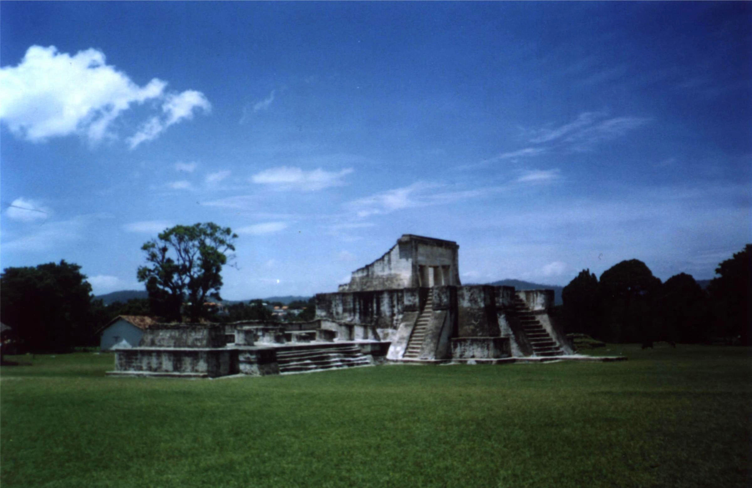 Postclassic Mam Maya ruins of Zaculeu, near Huehuetenango, Guatemala. Structure 4, an unusual palace-temple complex.